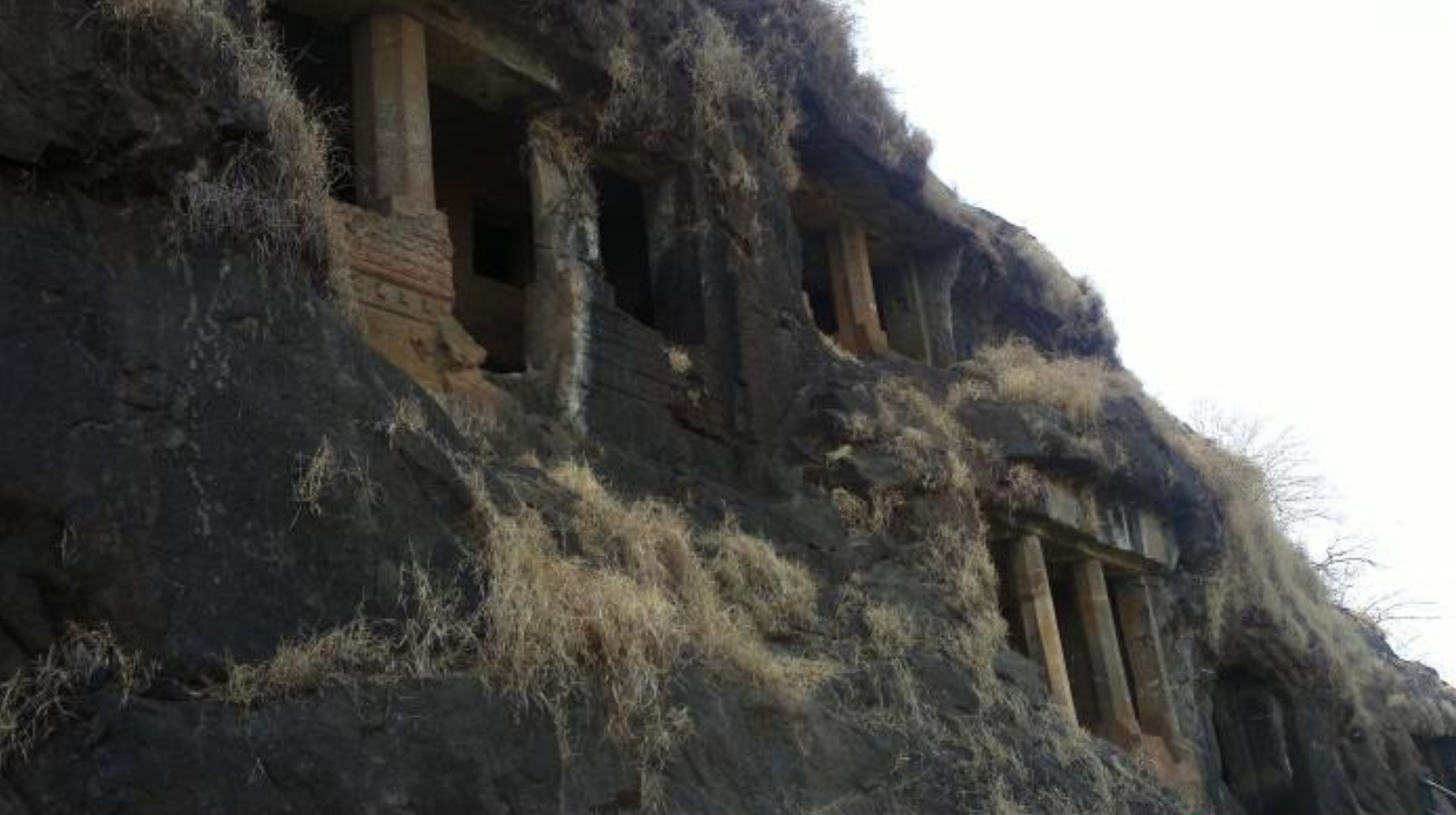 Gandhapale caves front